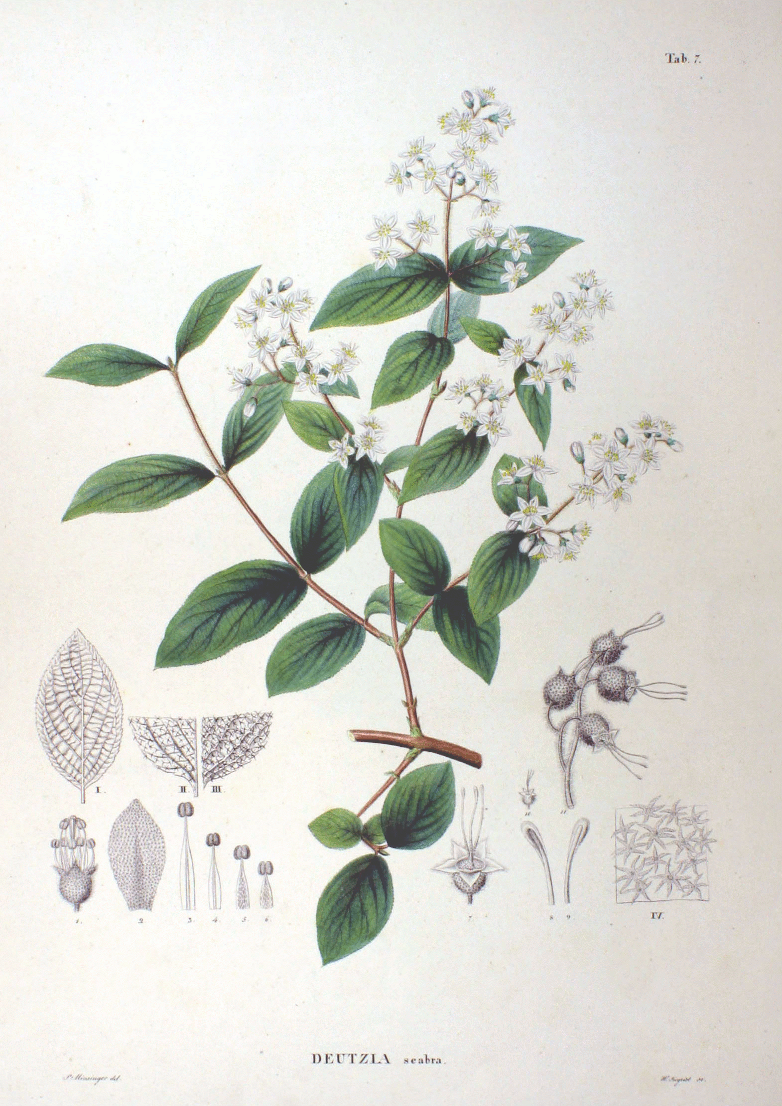 Plate from book